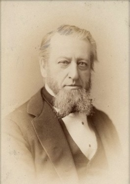 Portrait of Wyatt Angelicus van Sandau Papworth (1822–1894), English architect.